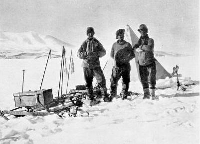 Apsley Cherry-Garrard, Patrick Keohane and Edward Atkinson (f.l.t.r.) on their return journey from the Beardmore Glacier on the Terra Nova Expedition